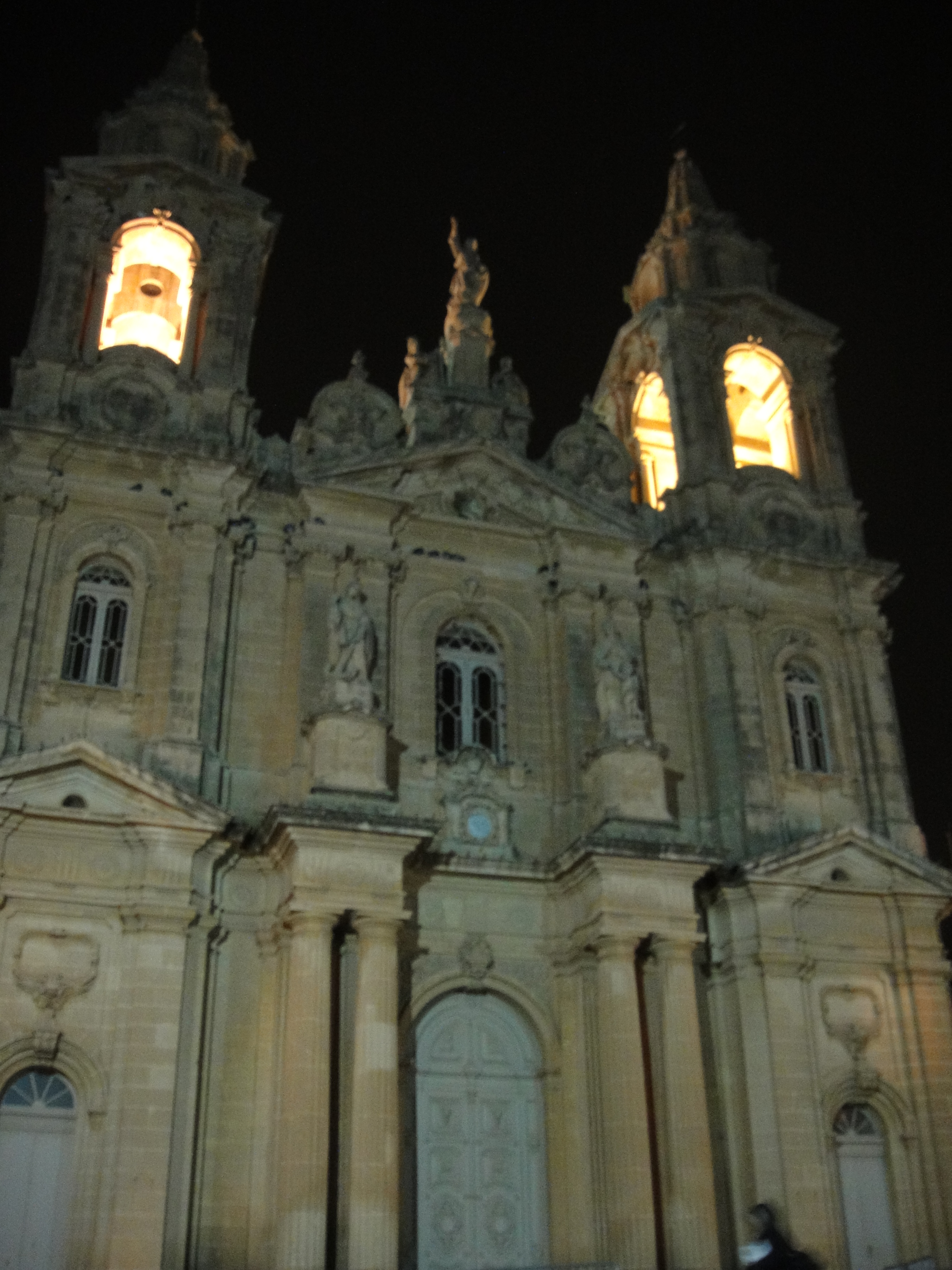 Gudja parish church Malta.